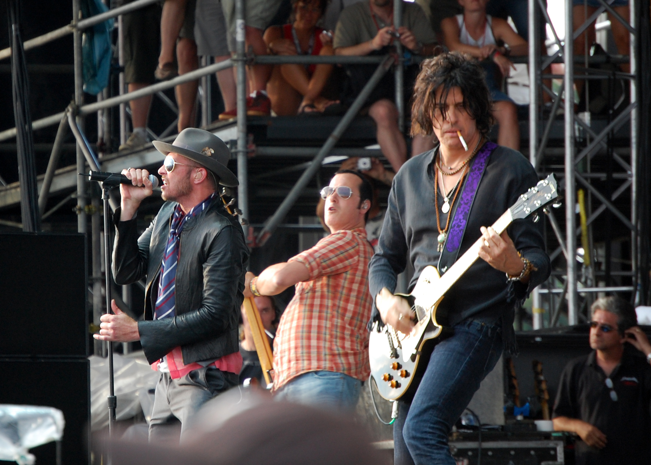 Stone Temple Pilots playing @ Virgin Festival, 08/10/08.